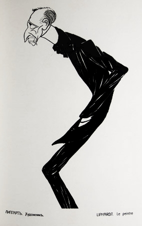 Baron Ernst Friedrich von Liphart or Earnest Lipgart (1847–1932), a painter, on a caricature from "All St. Petersburg in Caricatures" by Paul Robert · 1903 · St. Petersburg